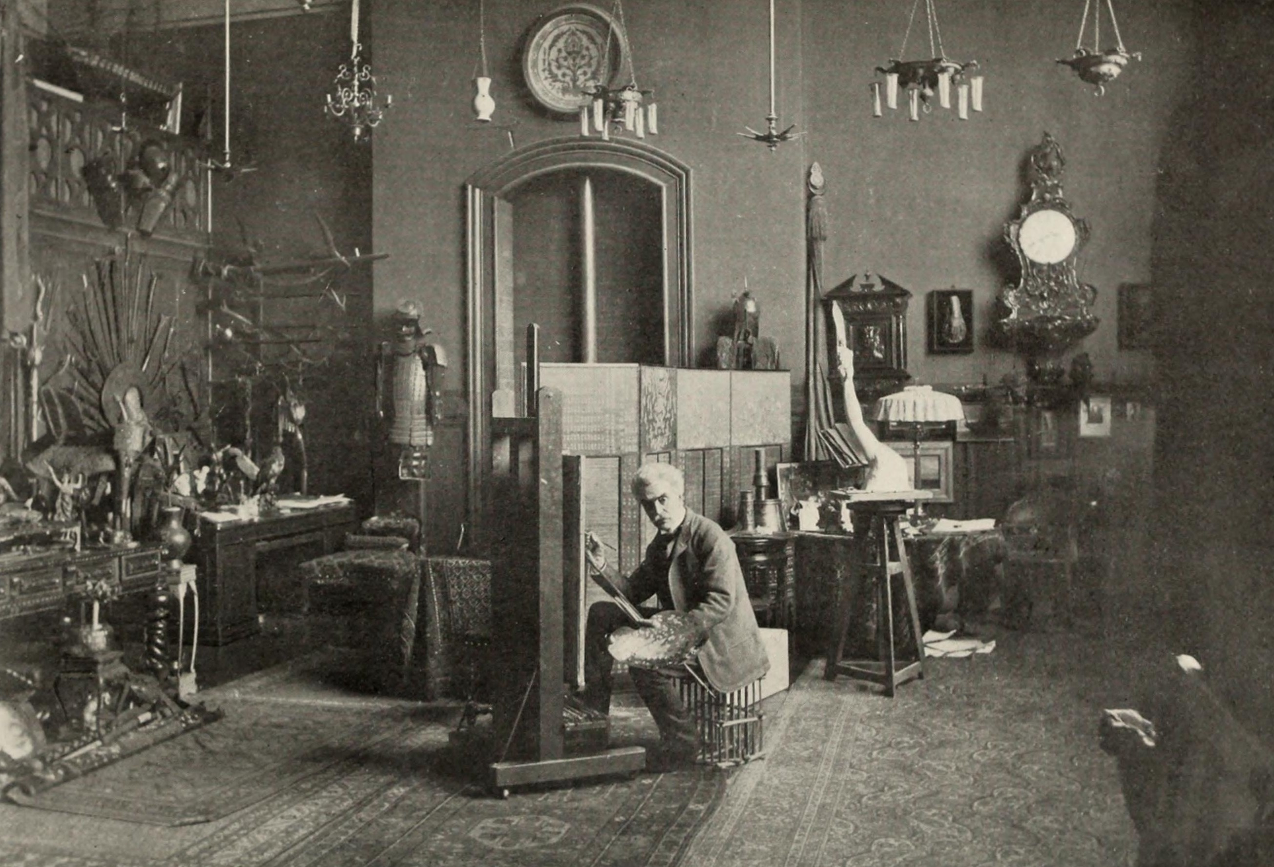 Jean-Léon Gérôme